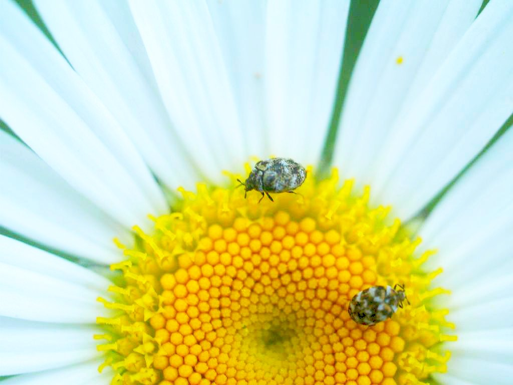 Anthrenus verbasci (Dermestidae )